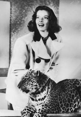 Cropped publicity photograph for the 1938 film Bringing Up Baby, featuring Katharine Hepburn and Nissa the leopard. Such images were taken on set during filming, or as part of an organized photo-shoot (see Film still). They were then disseminated to the public to promote the film.